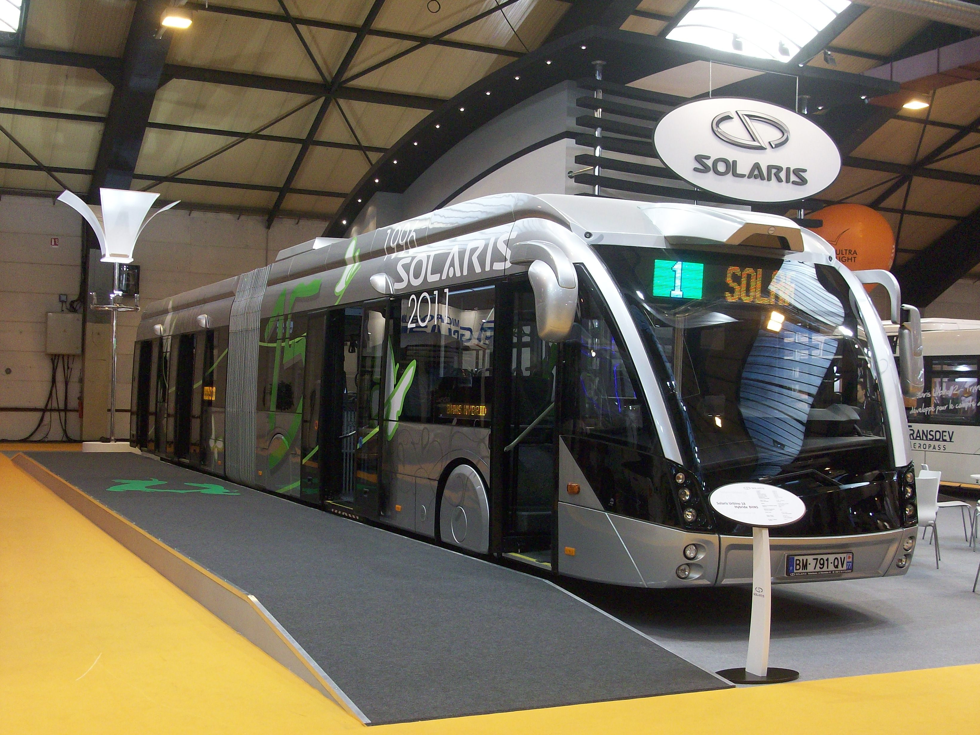 Solaris Urbino 18 Hybrid MetroStyle bus prototype (reg. BM-791-QV) in Strasbourg, France. Built 2010. Testing in Bus àHaut Niveau de Service (BHNS) in Paris. 23rd National Meeting of Public Transport.